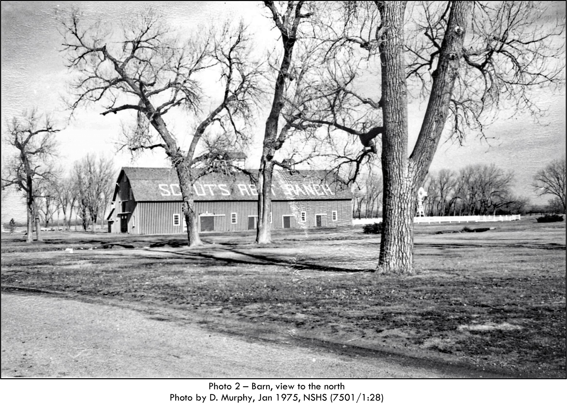 Photo 2 - Barn, view to the north Photo by D. Murphy, Jan 1975, NSHS (7501/1:28)